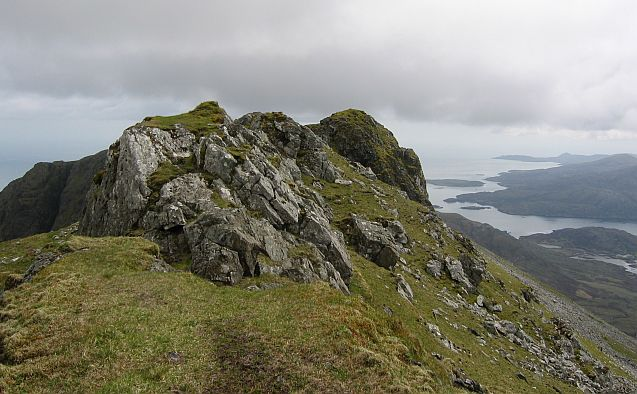 North ridge of Beinn Mhòr A narrow but easy ridge on Beinn Mhòr.